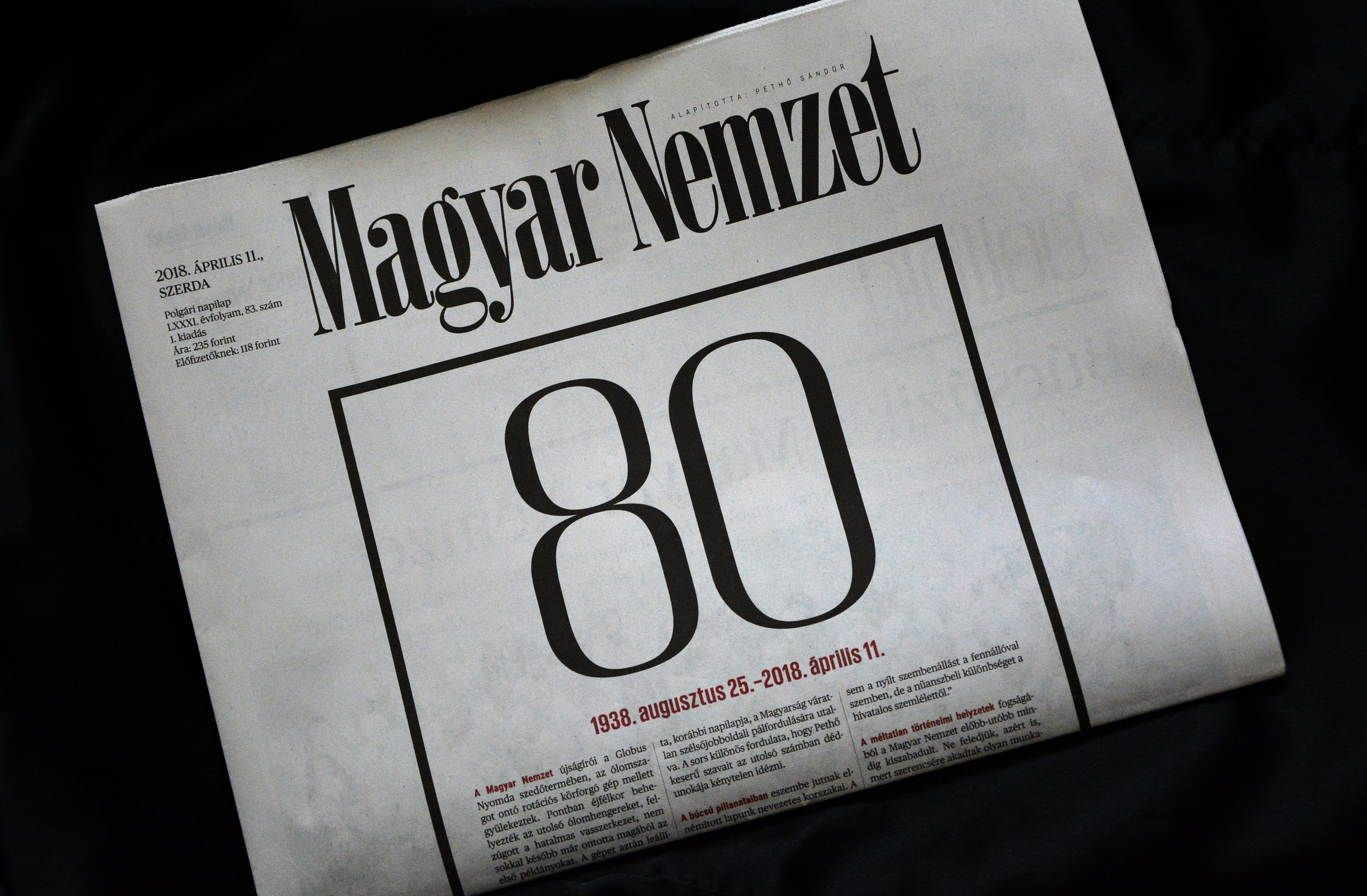 Magyar Nemzet last edition